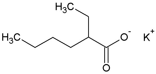 The structure of potassium 2-ethylhexanoate (CAS# 3164-85-0).